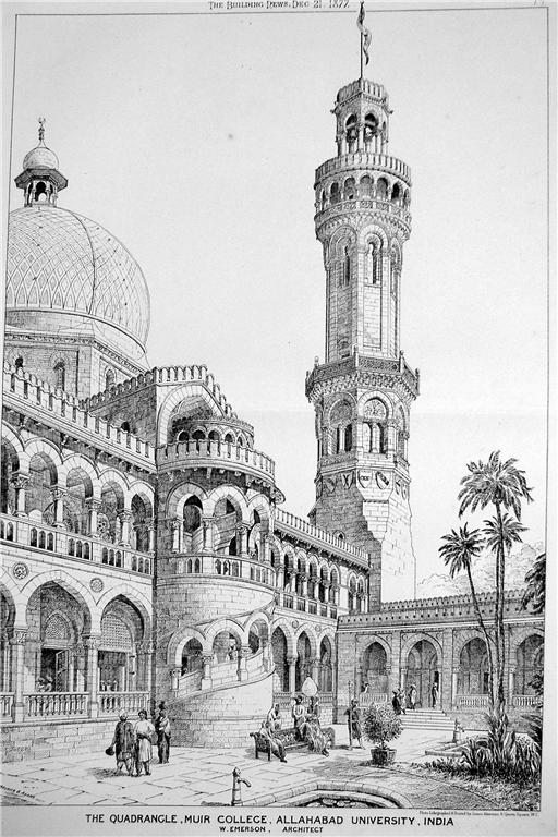 William Muir had always taken an interest in educational matters, and it was chiefly through his exertions that the central college at Allahabad, known as Muir College, was built and endowed. Muir College later became a part of the Allahabad University. Original desc: "Muir College, Allahabad, founded in 1866, grew into Allahabad University Source: ebay, Aug. 2006"